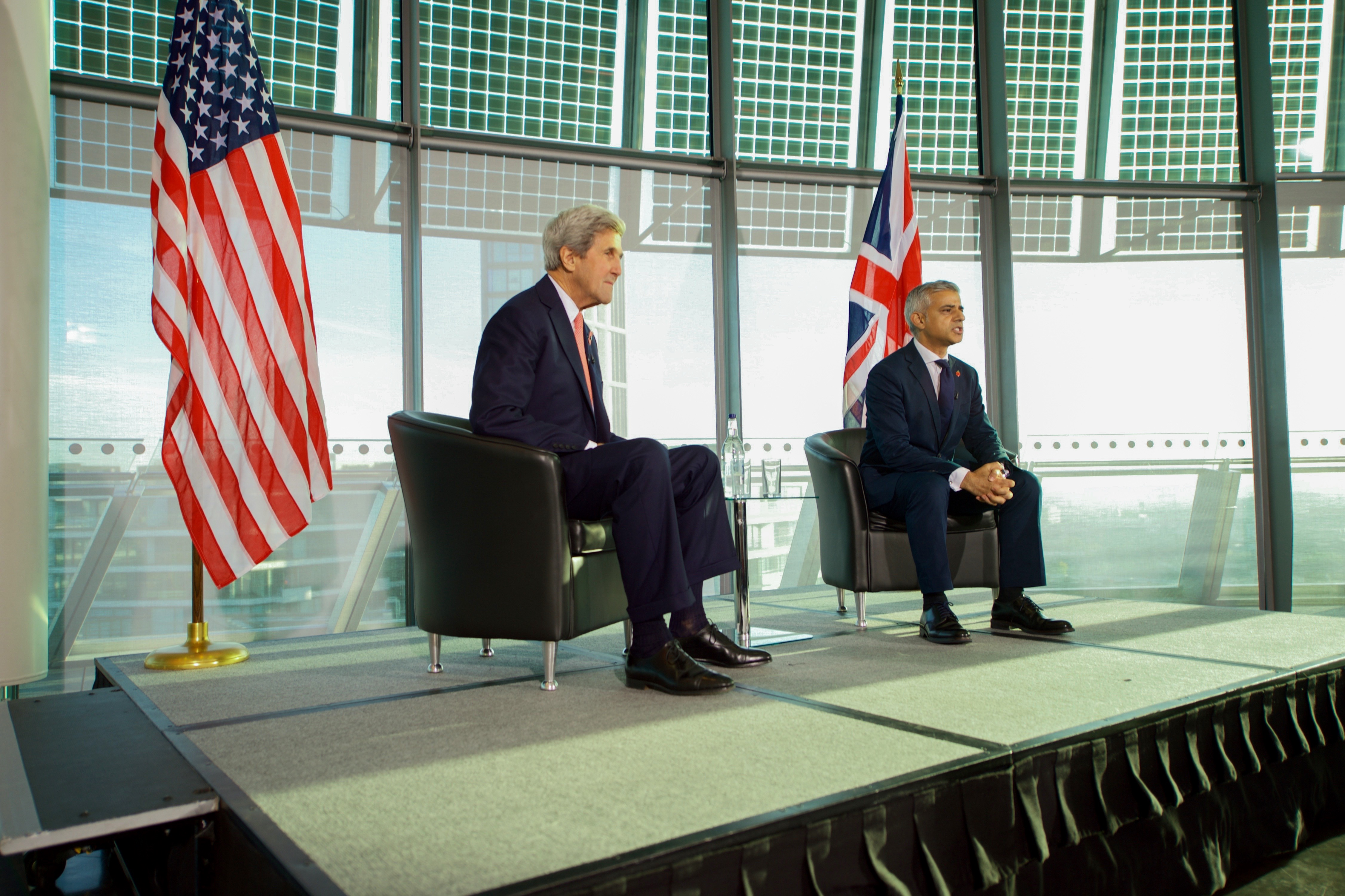 London Mayor Sadiq Khan sits with U.S. Secretary of State John Kerry as they hold a question-and-answer session about foreign affairs with young Londoners, British residents, and American visitors on October 31, 2016, on the rooftop level of London City Hall in London, U.K. [State Department photo/ Public Domain]